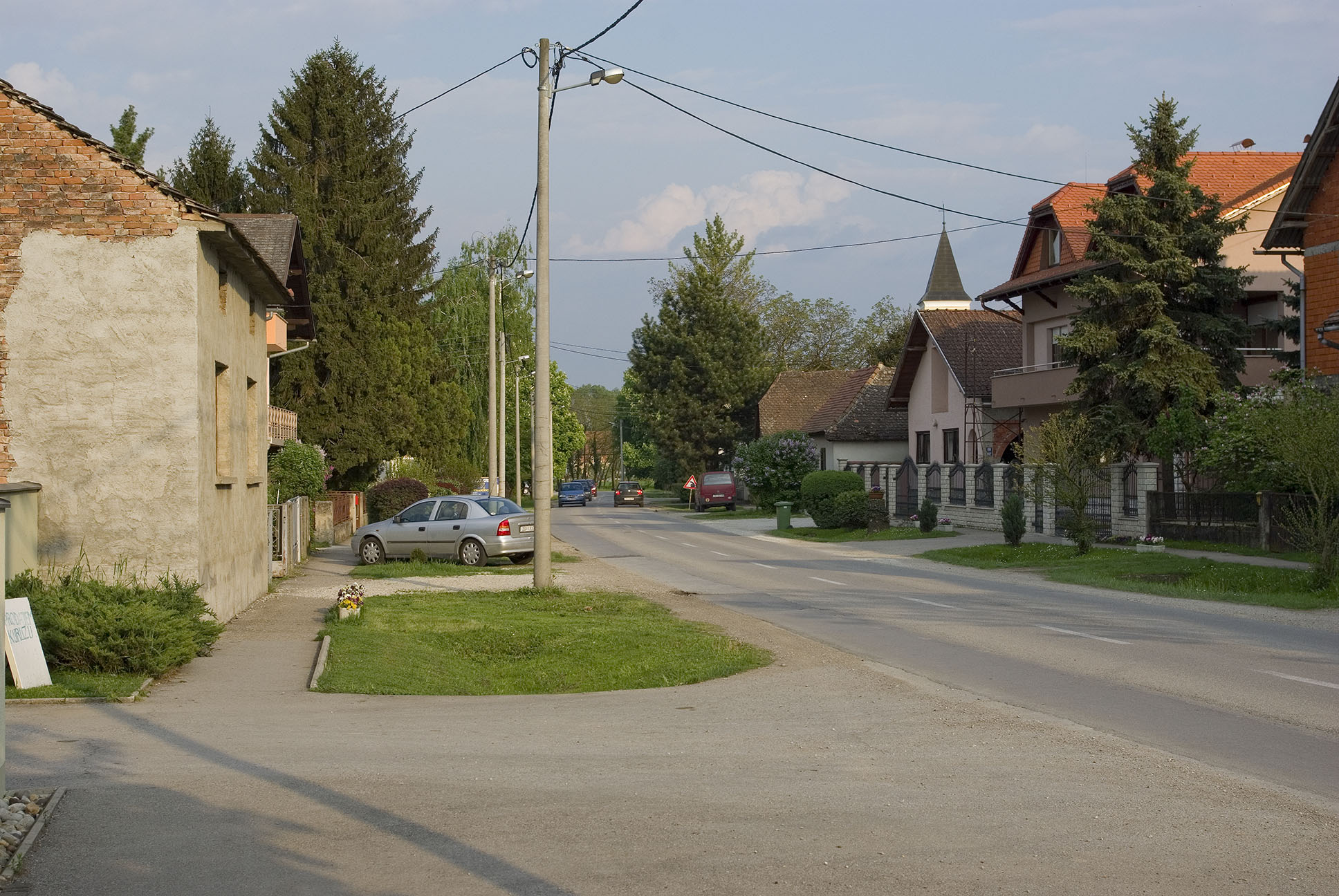 Main street in Novo Čiče